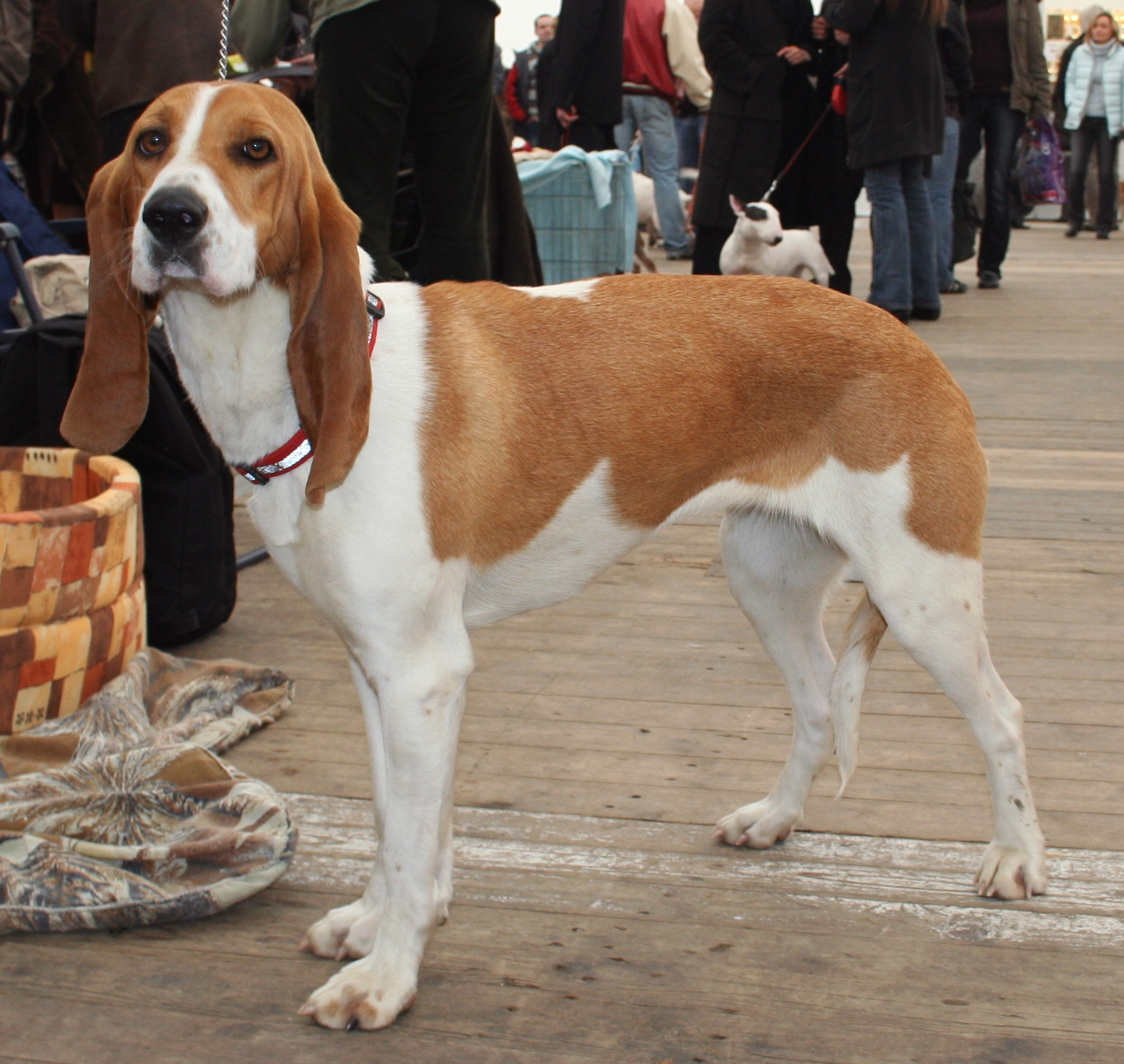 Swiss Hound - bitche during the international dogs show in Katowice, Poland. Her name is Connie Haniččina zahrádka. The owner is Ivana Herianová-Bajgarova from Czech.